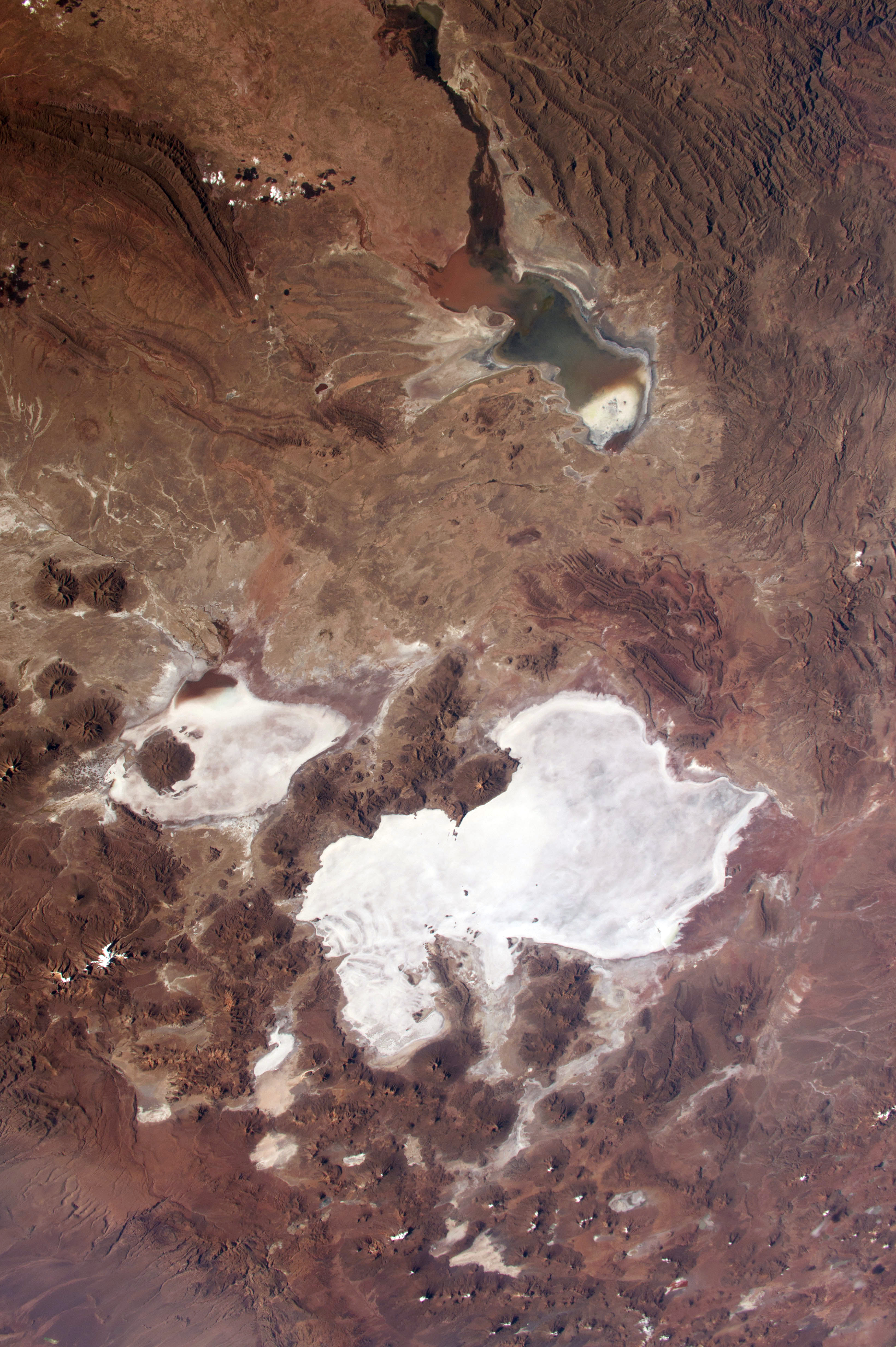 NASA astronaut Terry Virts Expedition 43 Commander on the International Space Station tweeted this Earth observation image of South America with the following comment: "Salar de Uyuni in the #Bolivia desert #SouthAmerica. The world's largest salt flat".